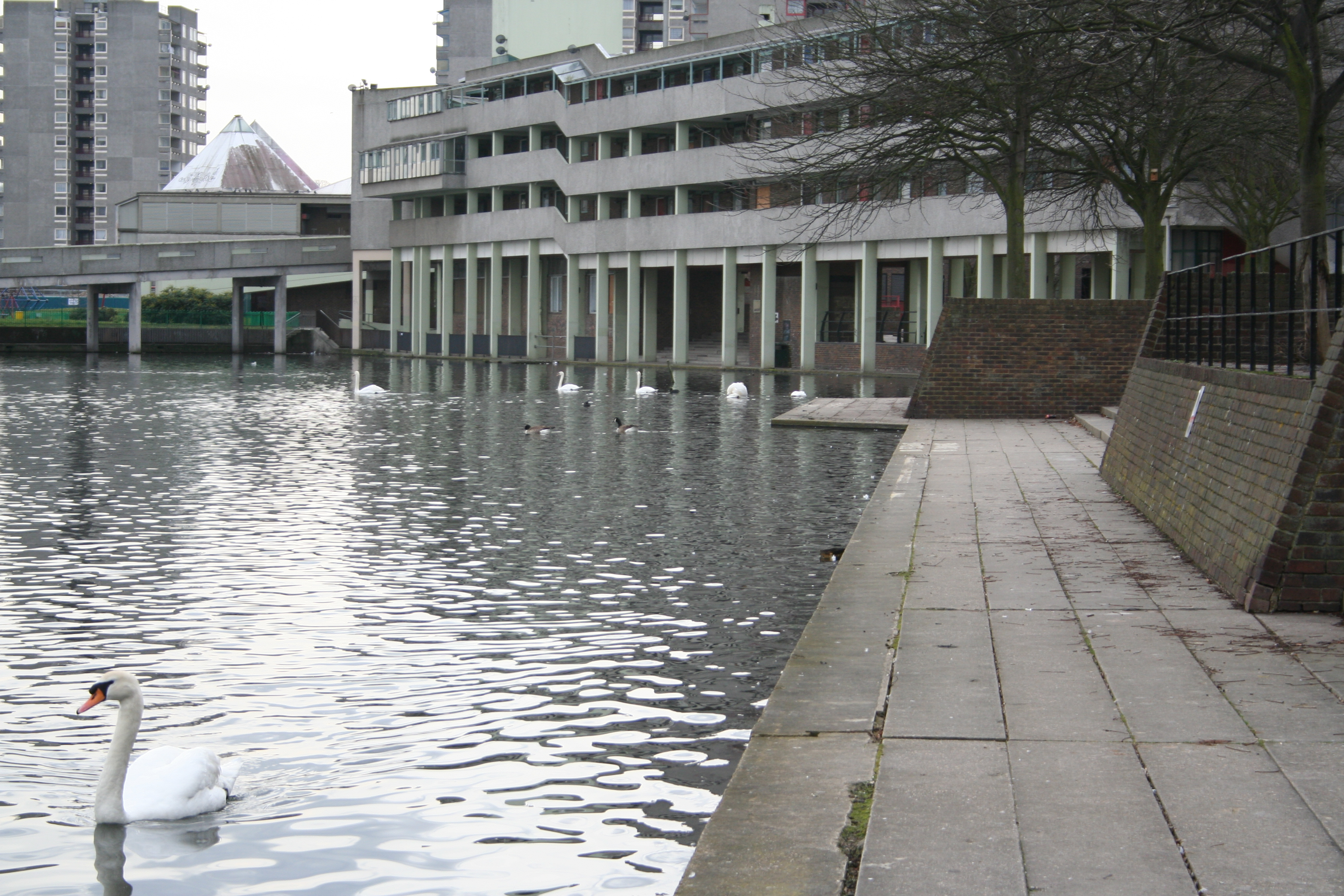 Oddly enough this part, used as the location for Flatblock Marina, is perhaps the nicest bit of the estate.